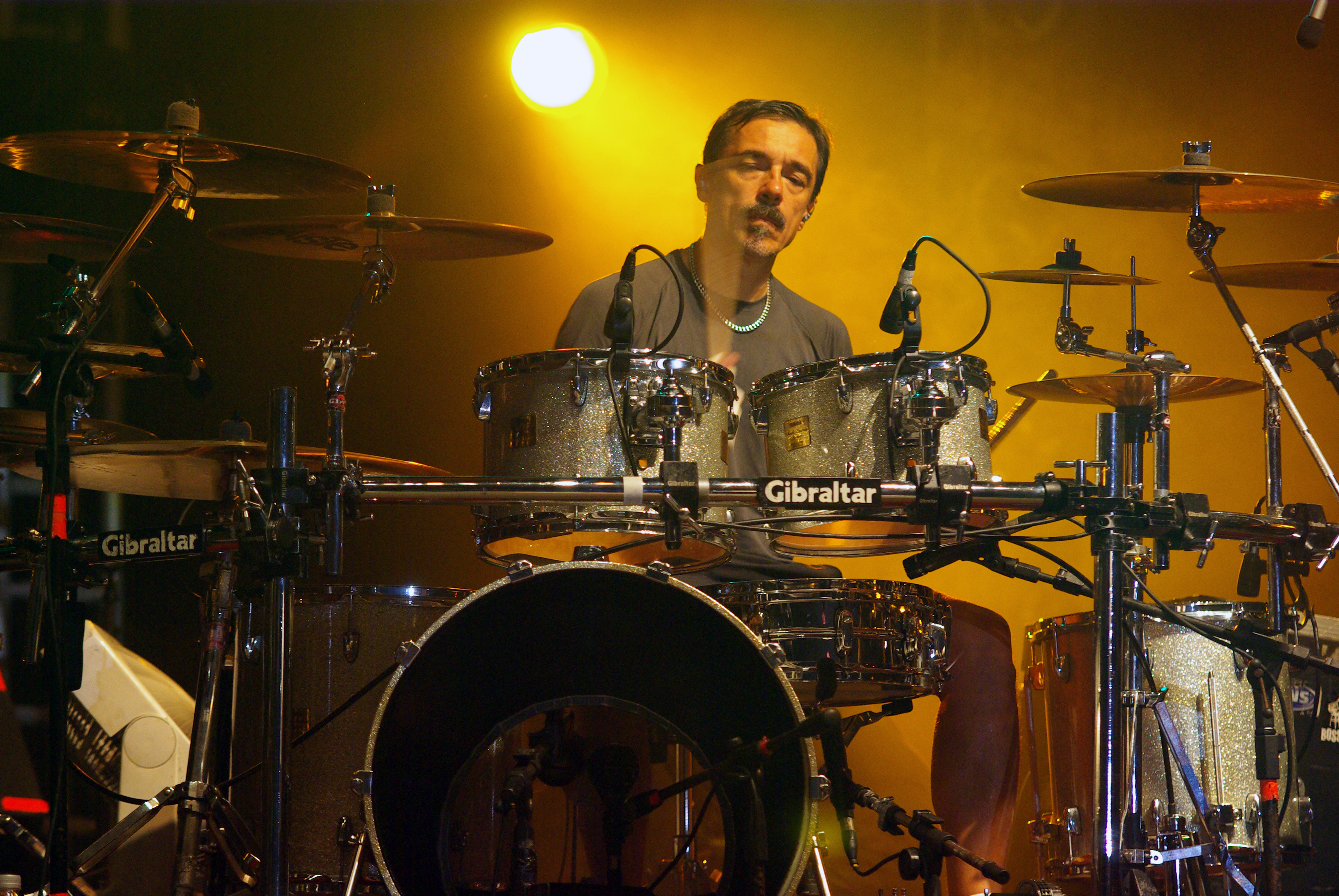 Charles Gavin live in 2009 during a Titãs & Paralamas do Sucesso show in Recife, Pernambuco, Brazil.